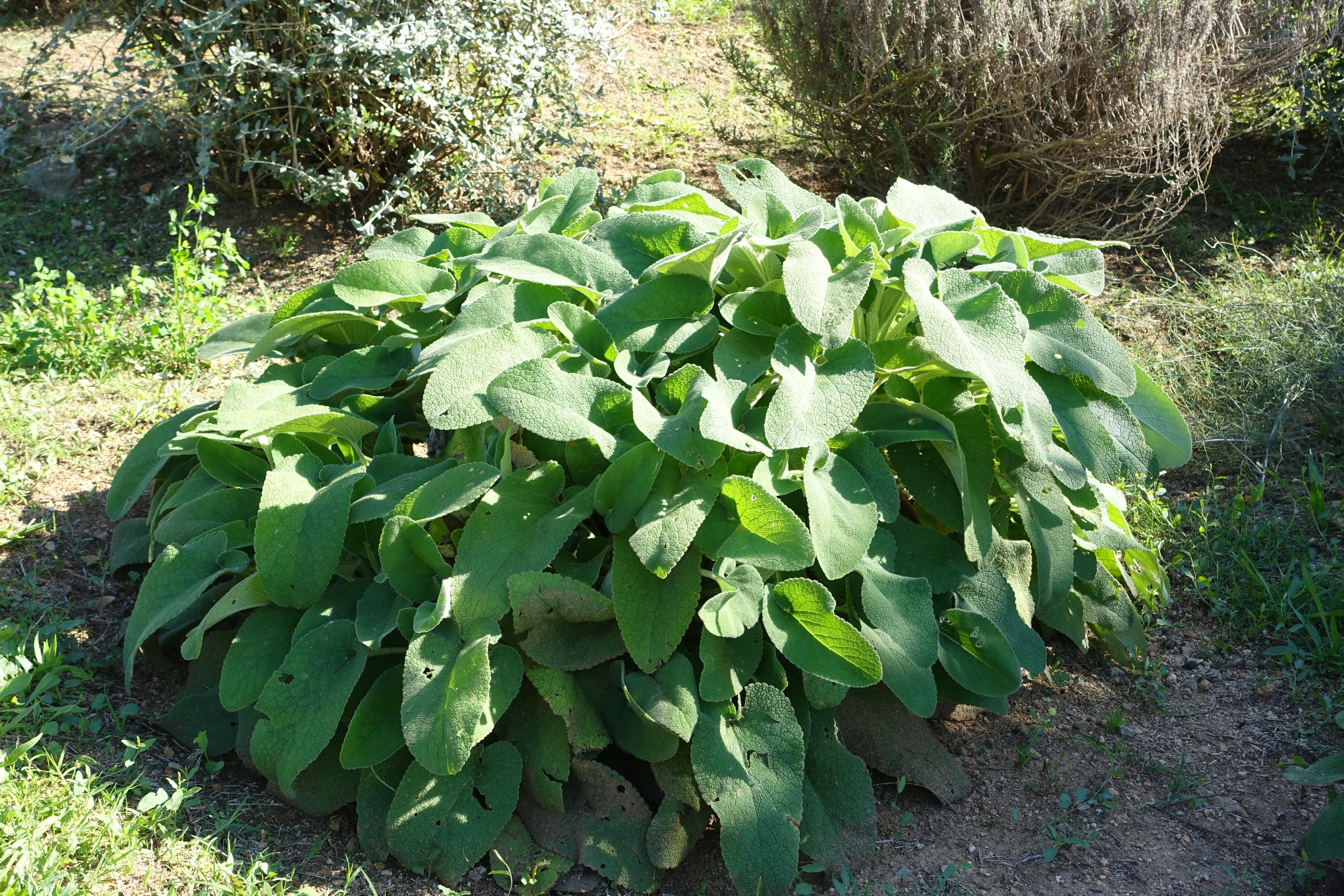 Botanical specimen in the Jardín Botánico de Barcelona - Barcelona, Spain.